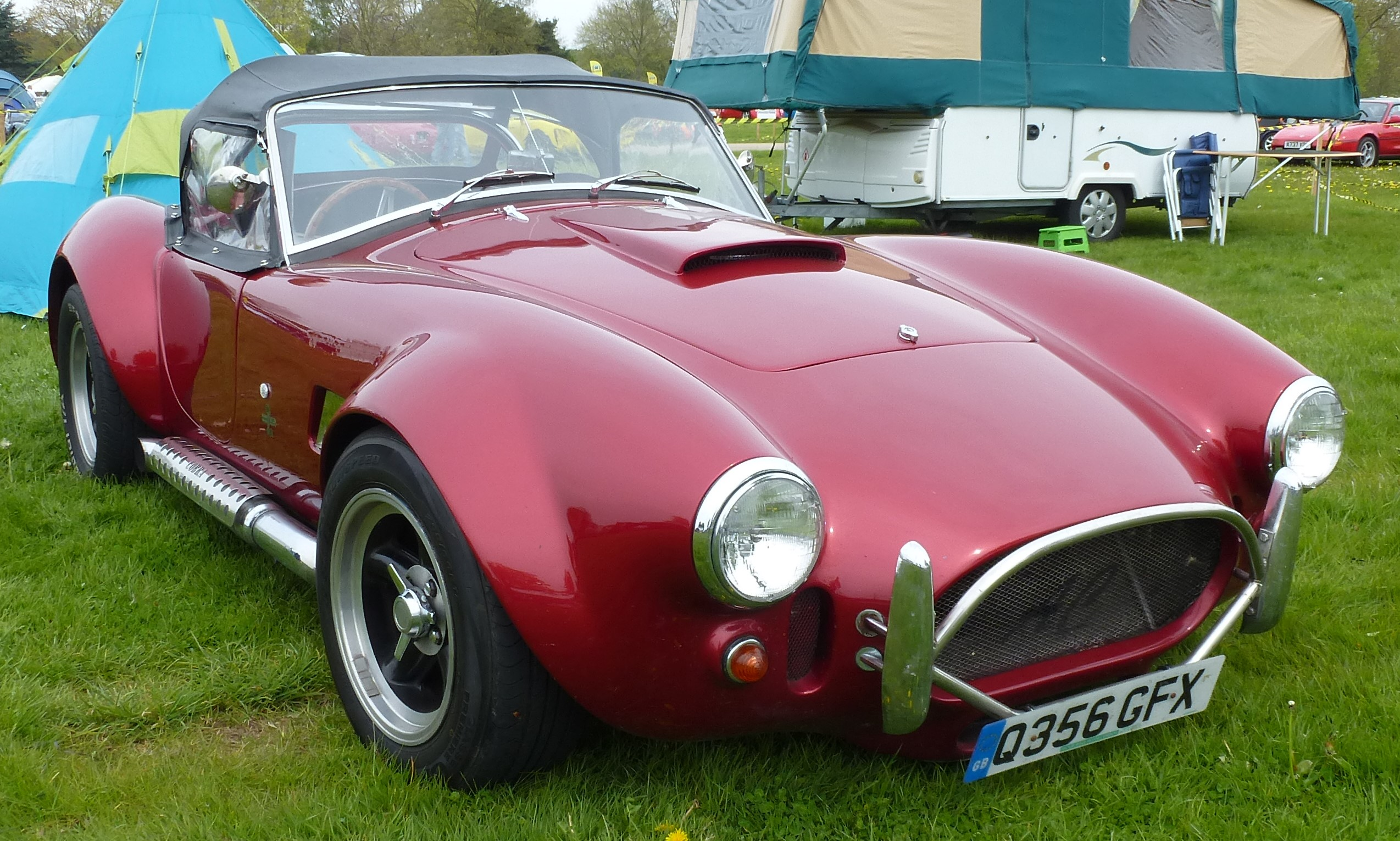 Brightwheel Viper